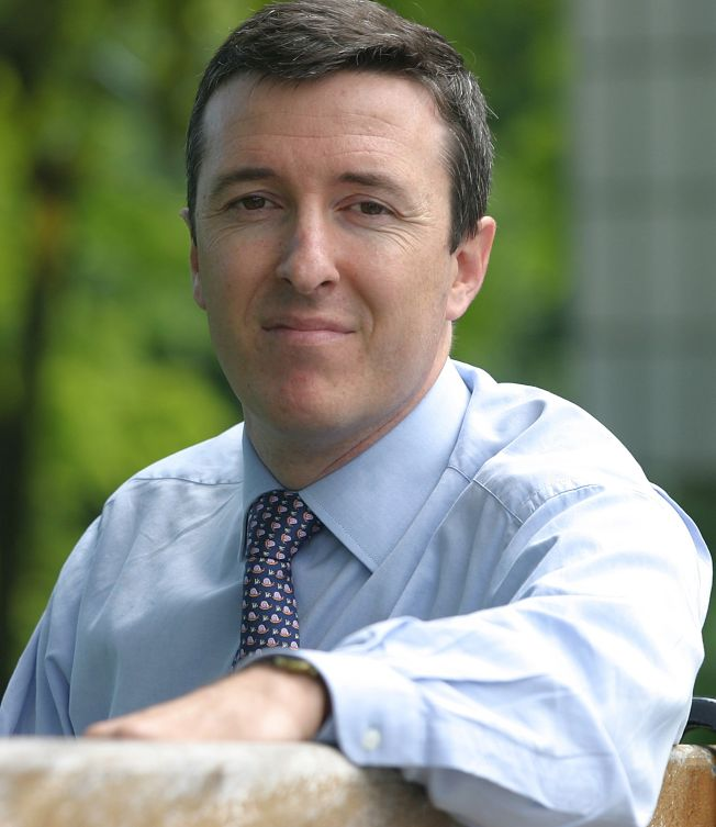 Picture of Alejo Avello, Dean of Tecnun School of Engineering and Director of CEIT